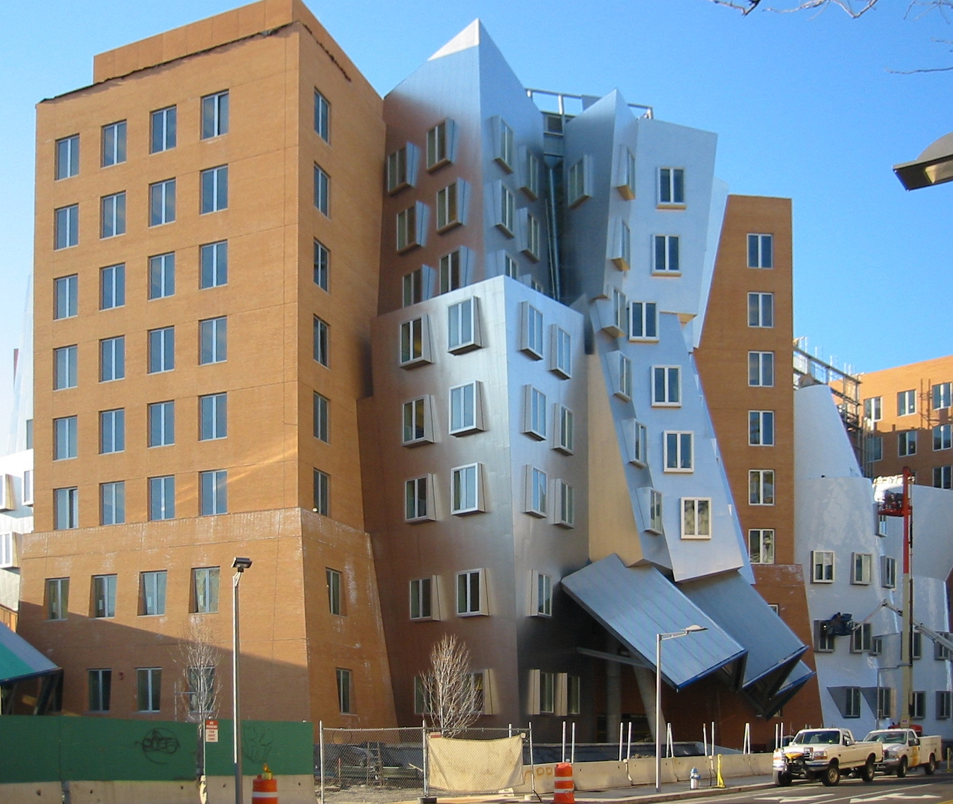 This is is to give you an idea how the new MIT campus will look. I think it looks pretty futuristic. But that's the way it should be at MIT. Apparently it is Frank Gehry's (he's the architect) MIT Stata Center. Check: and some more about the project: , Campus